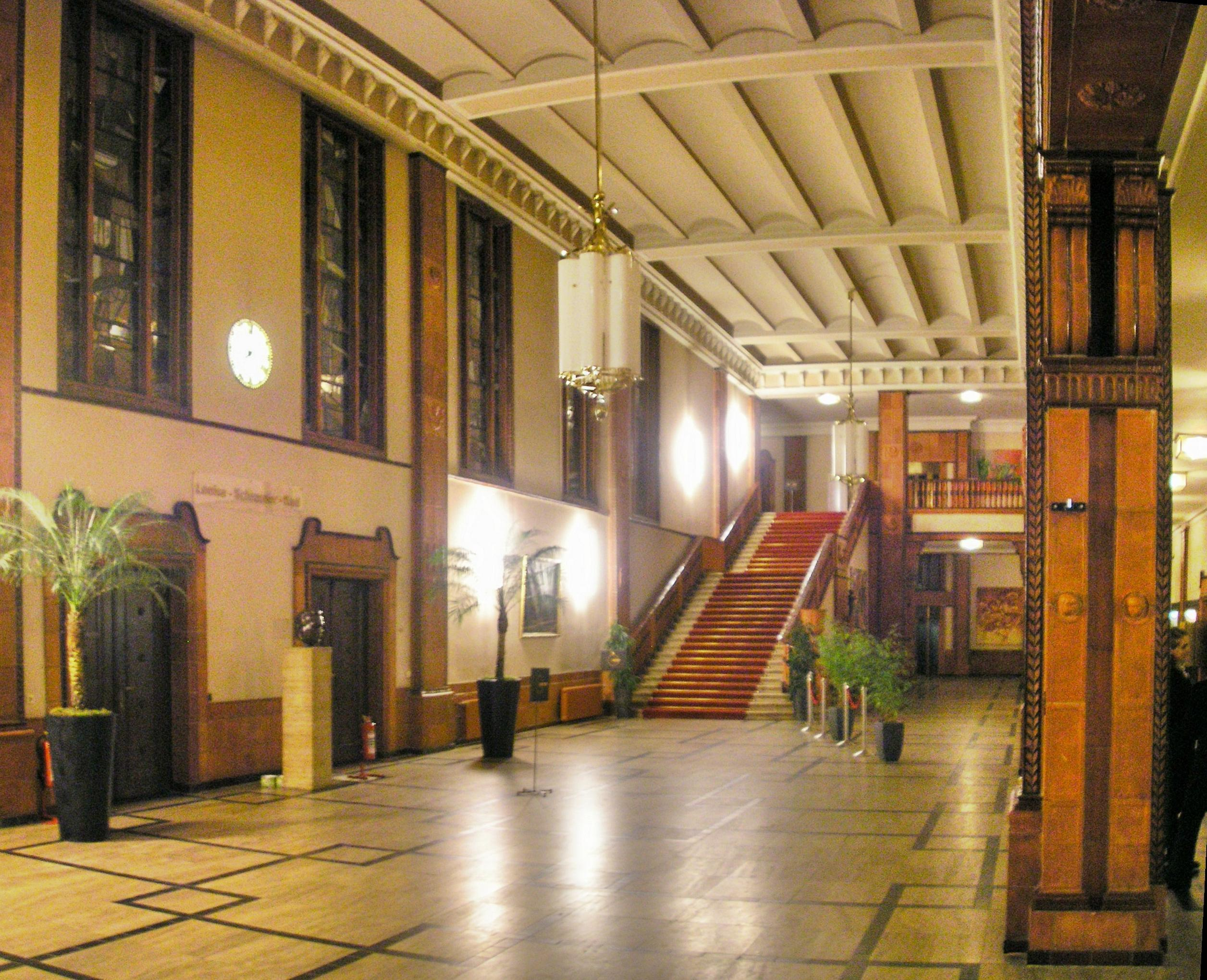 Interior of Rathaus Schöneberg in Berlin